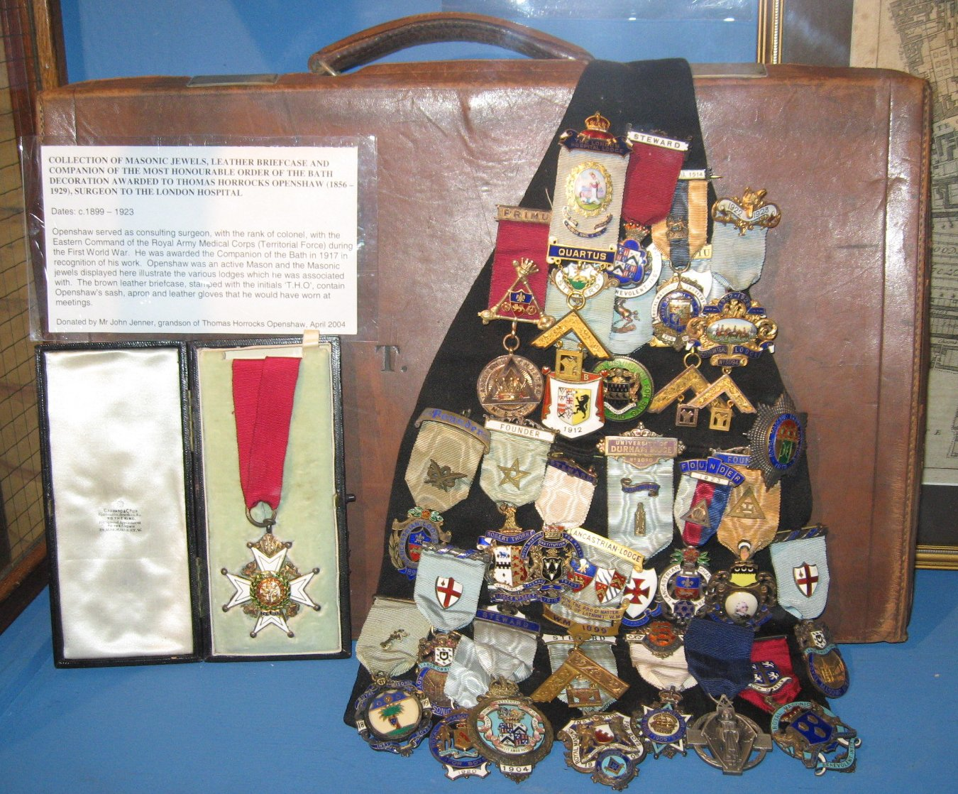 Photograph taken by me at the Royal London Hospital on March 27 2008.